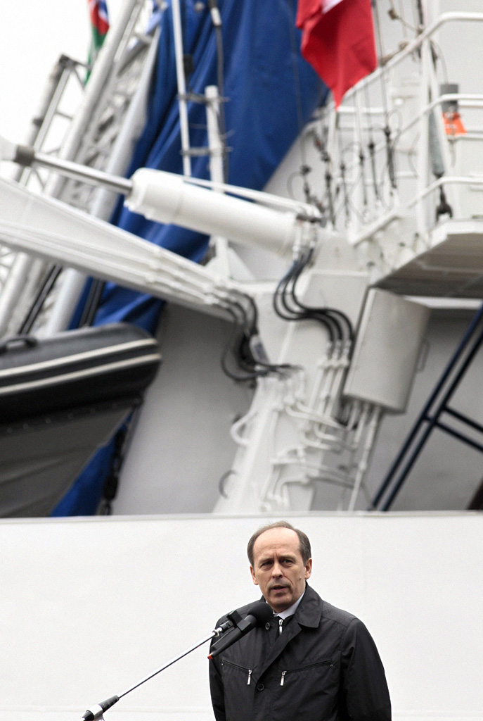 “Flag-raising ceremony at border guard lead ship Rubin (Project 22460) held in St. Petersburg”. Head of Russia's Federal Security Service Alexander Bortnikov during the flag-raising ceremony at the border guard lead ship Rubin (Project 22460) held at Almaz Shipbuilding Company.